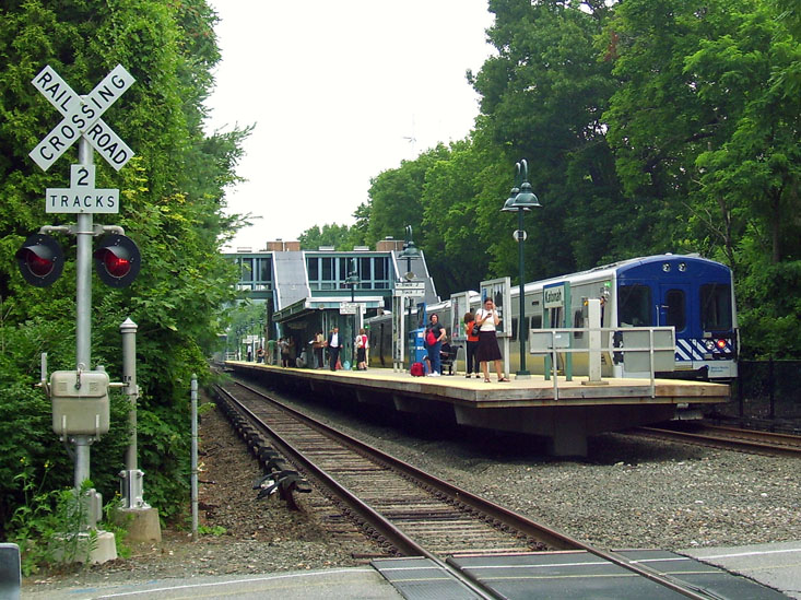 Photographed by Daniel Case 2006-07-10